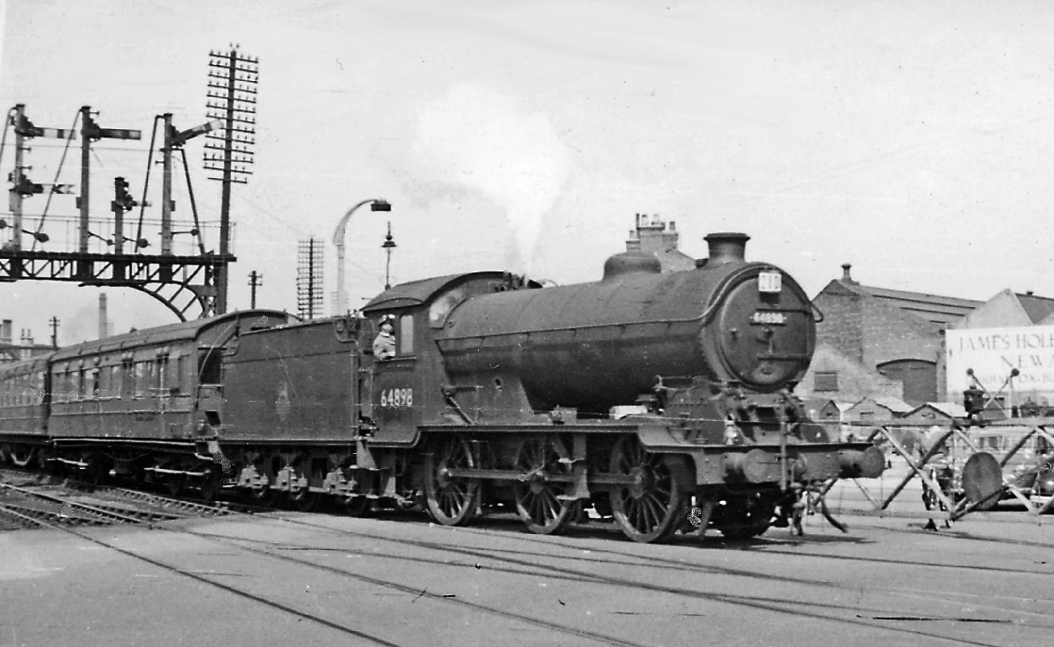 Excursion for Cleethorpes at Lincoln, Pelham St. Level-Crossing. View northward over the wide Crossing, as an Excursion for Cleethorpes (via Barnetby) leaves Lincoln Central station, with Gresley J39/2 class 0-6-0 No. 64898 (built 10/35 as No. 2994, No. 4898 from 1946 and withdrawn 2/60). (See also SK9770 : LNE B1 4-6-0 at Pelham Street crossing, Lincoln).